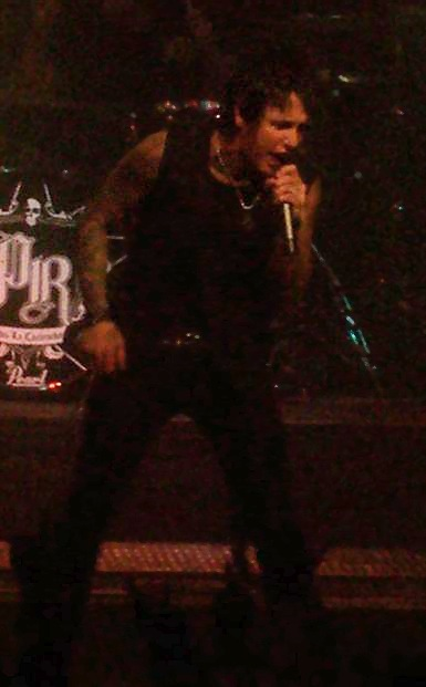 Jacoby Shaddix, from Papa Roach